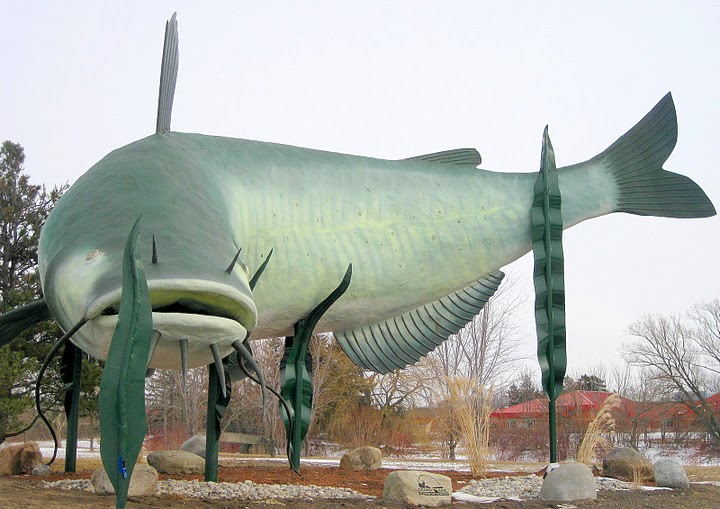 The symbol of our town